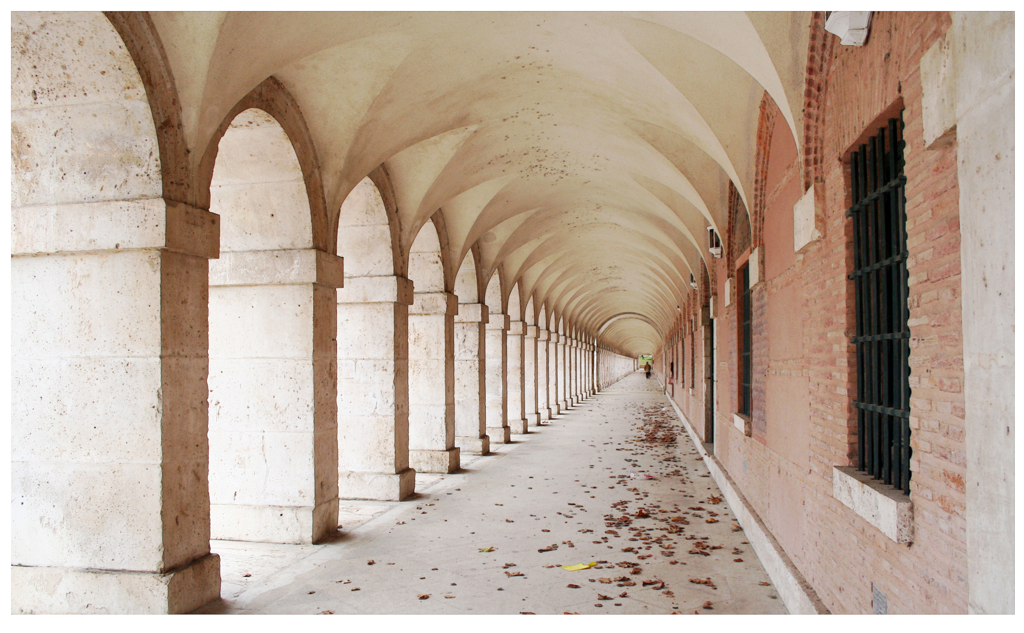 Arcade at the Plaza de Parejas (square) in Aranjuez (Community of Madrid, Spain).